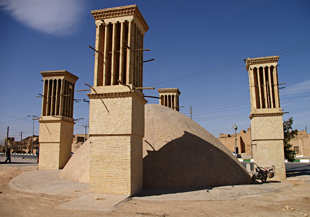 Ab anbar (cistern) with 4 badghirs (wind towers), Yazd, Iran